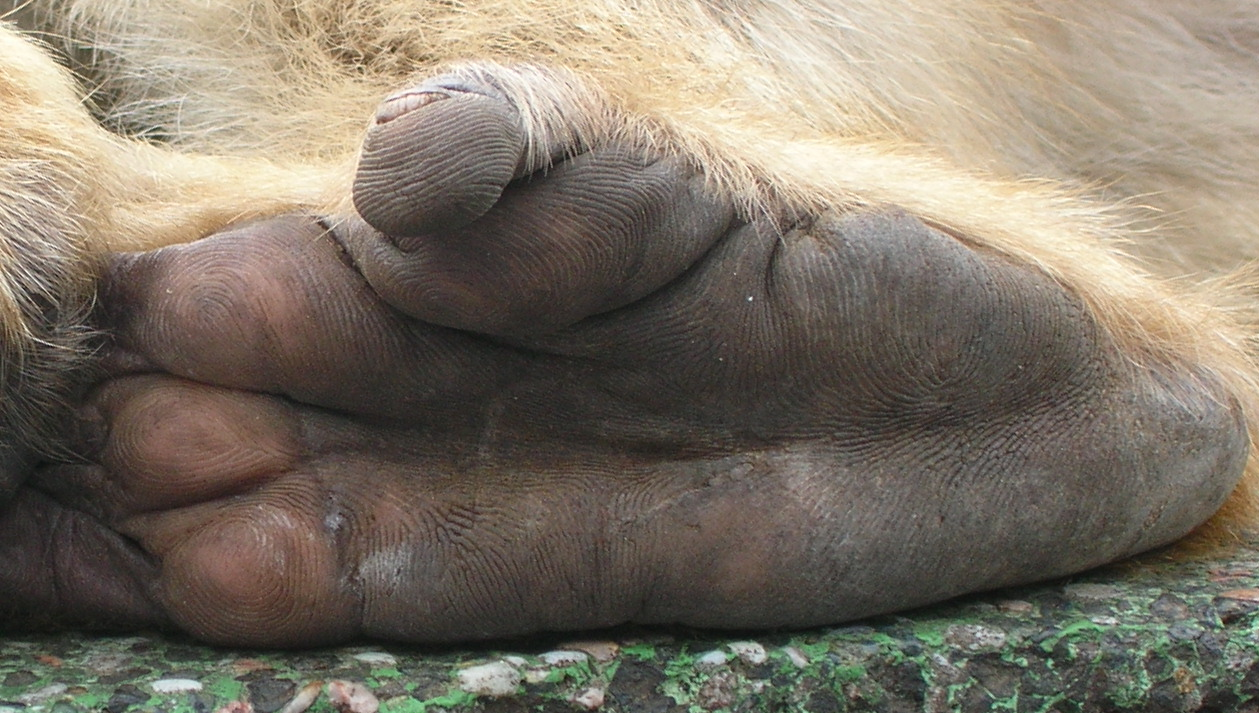 Barbary Macaque (Macaca sylvanus) feet and hands, in Gibraltar.